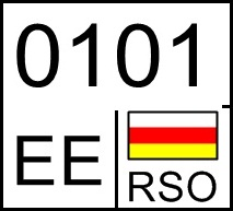 Motorcycle license plate in South Ossetia